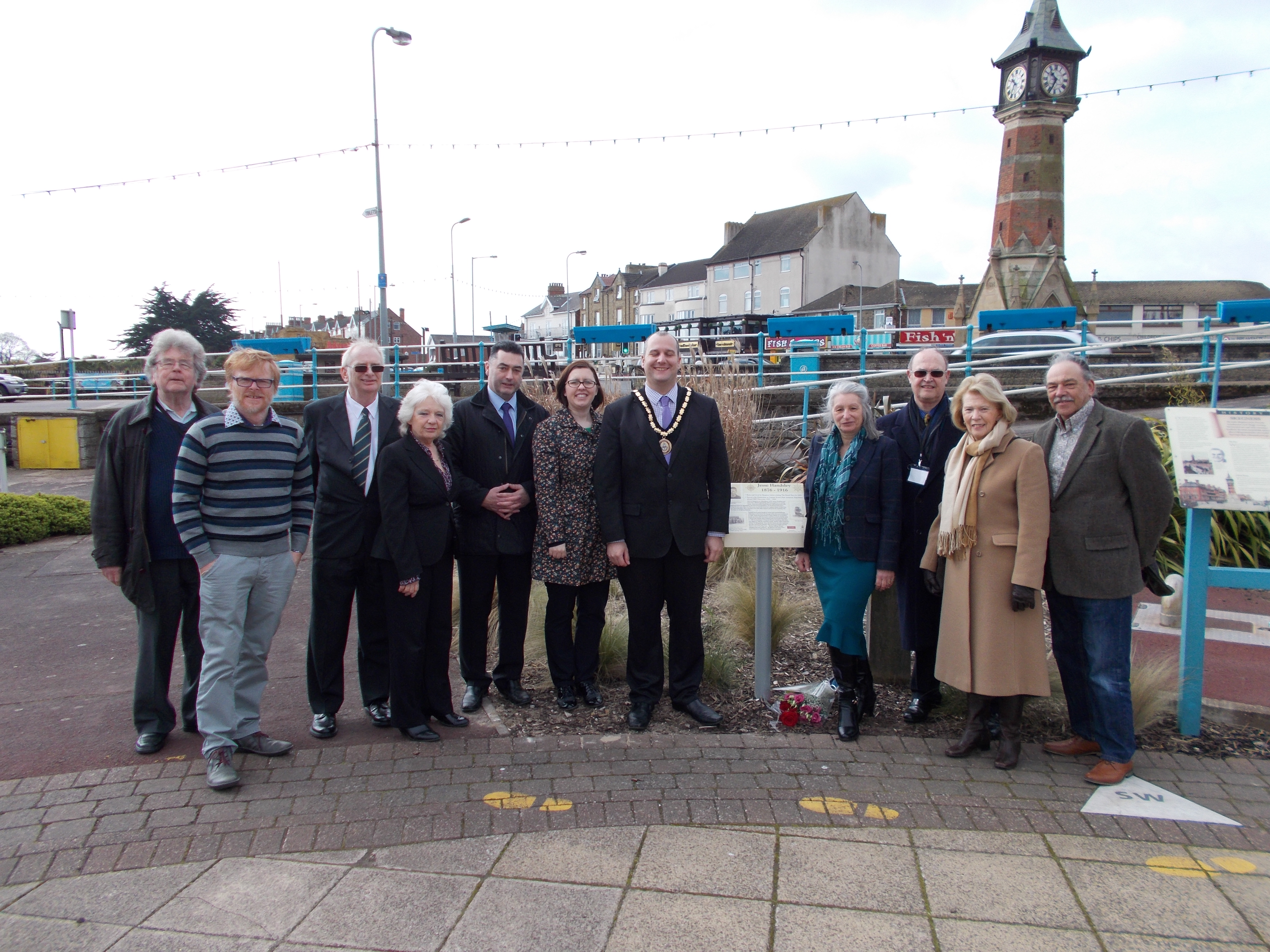 Jesse Handsley Memorial Unveiling 21 March 2016. Representatives of Skegness Civic Society, Skegness County Council and Grantham Civic Society